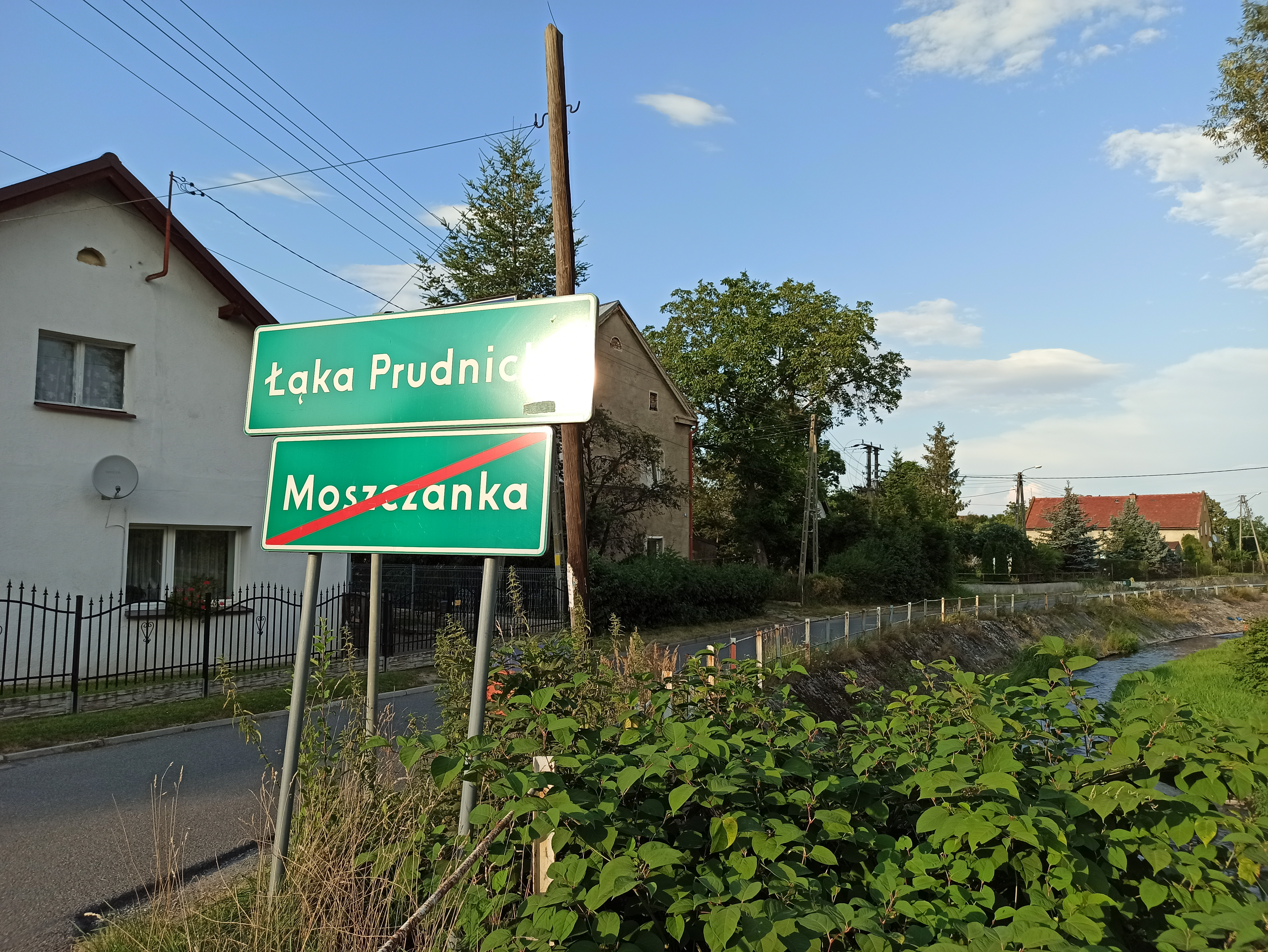 Łąka Prudnicka, Poland.